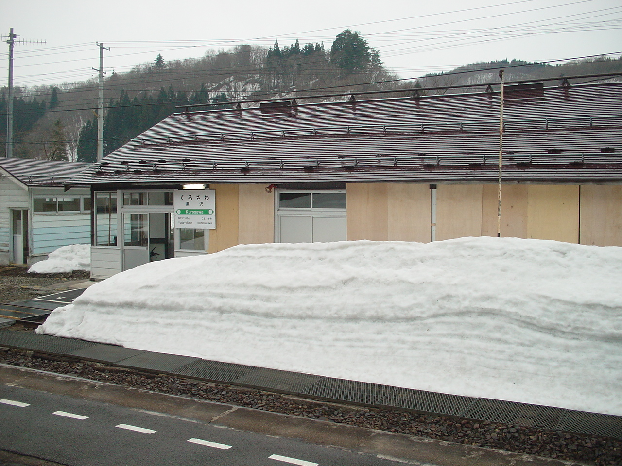 Kurosawa Station on Kitakami Line